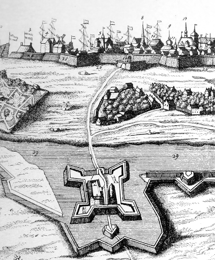 Section of map showing Vartov in 1658. Original map by Peder Hansen Resen